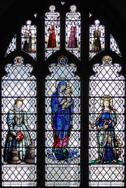 St Olave, Seething Lane, London EC3 - Window